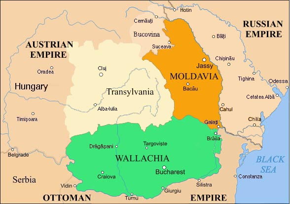 Romania's territory, map showing the period 1829-1856